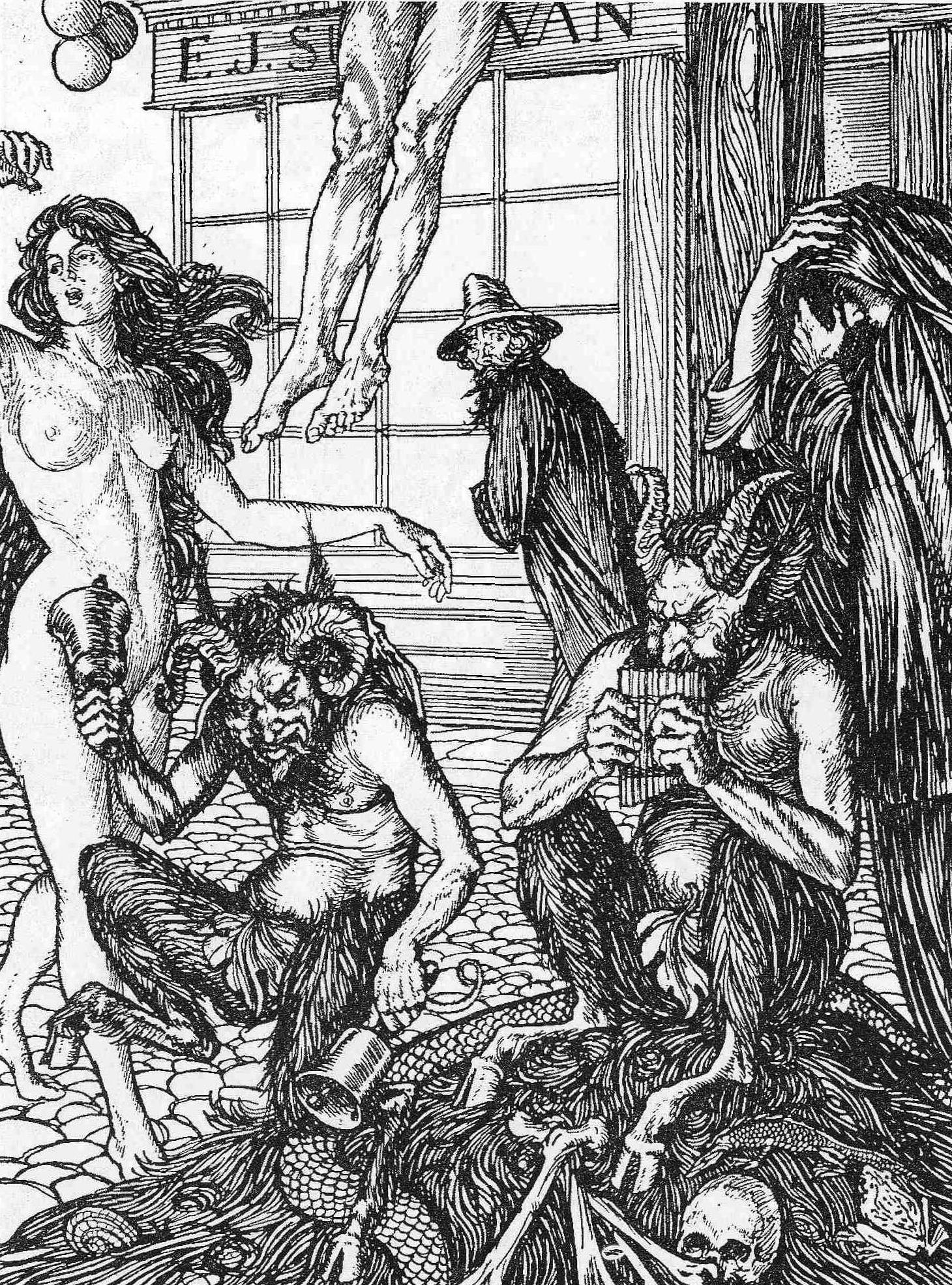 "The Bedlam of Creation", illustration depicting Diogenes Teufelsdroch in Monmouth Street